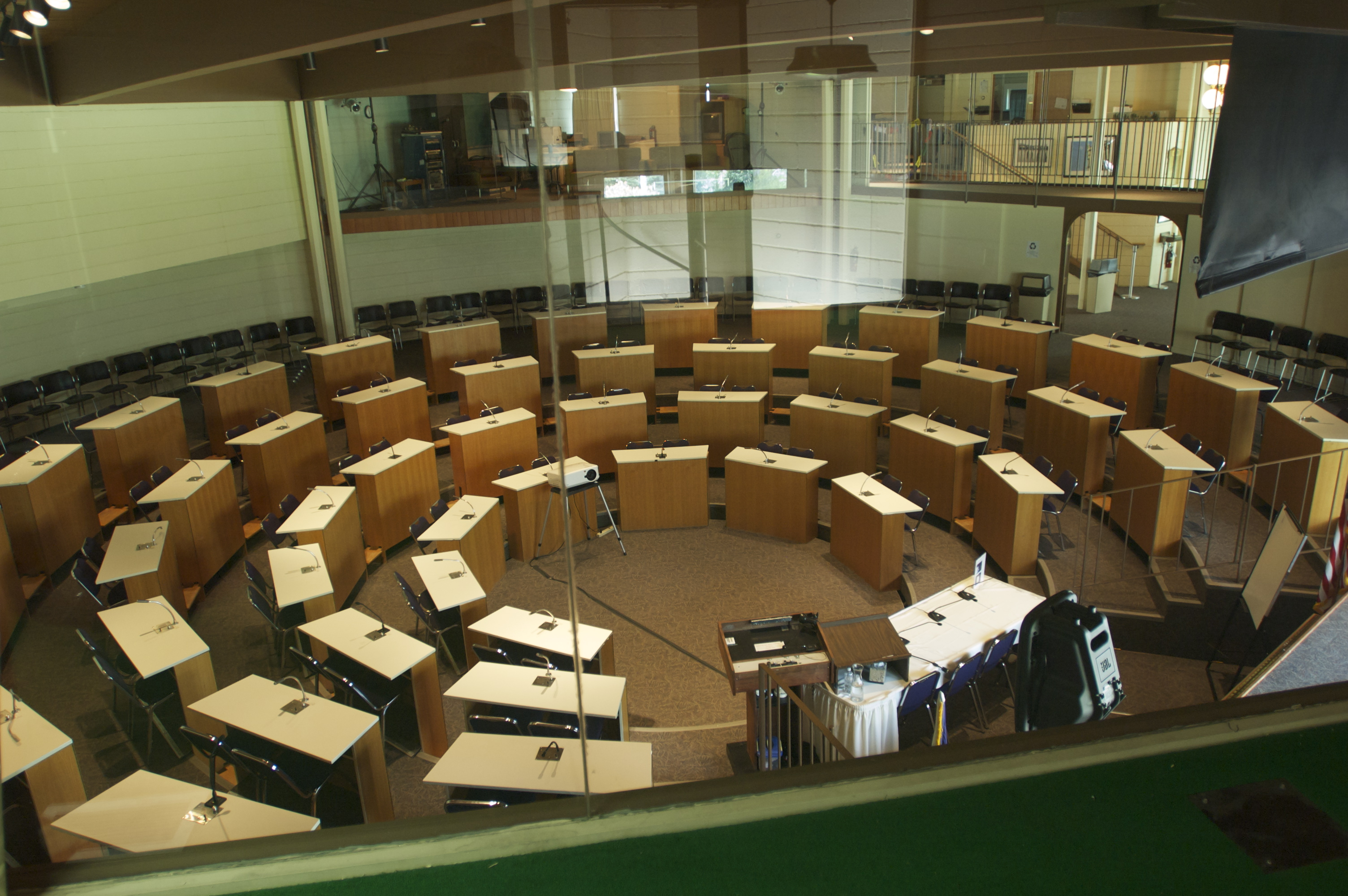 Interior of the Given Institute in Aspen Colorado